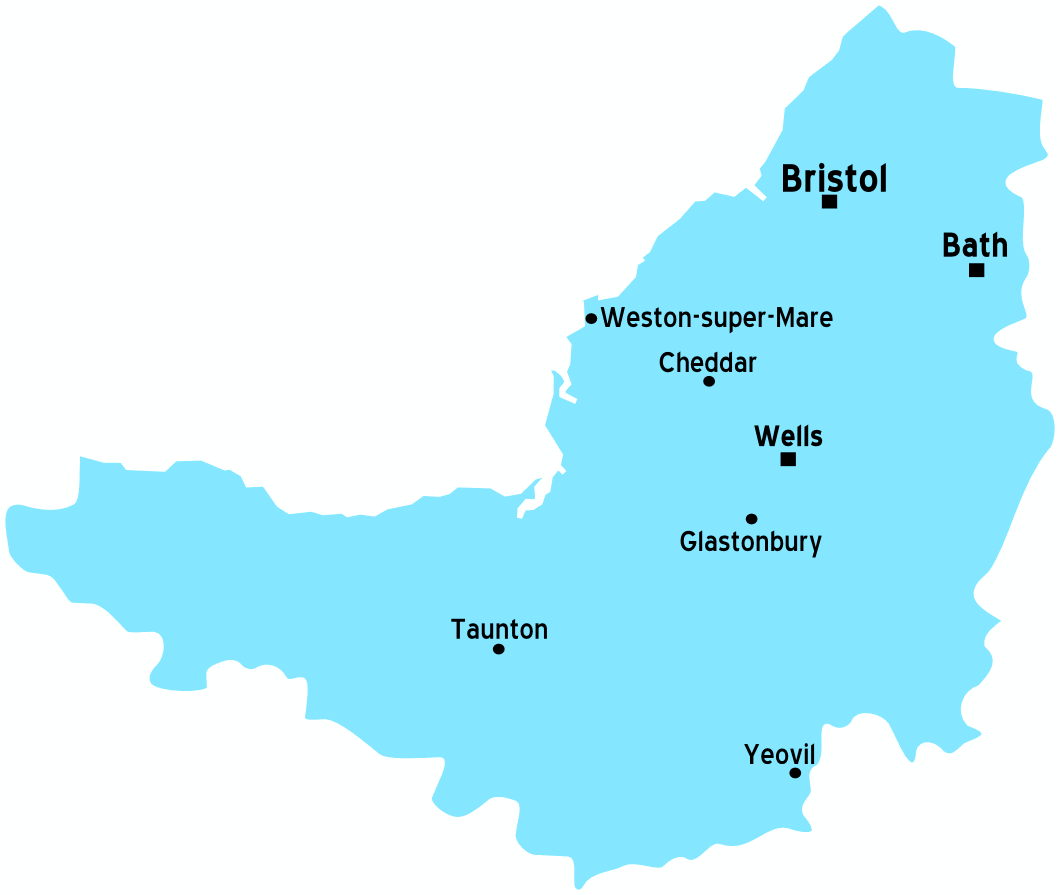 Map of Somerset Source: :Image:UK map.svg map: England Map of: England